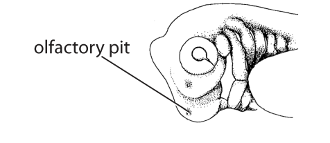 Standard Event System character depiction